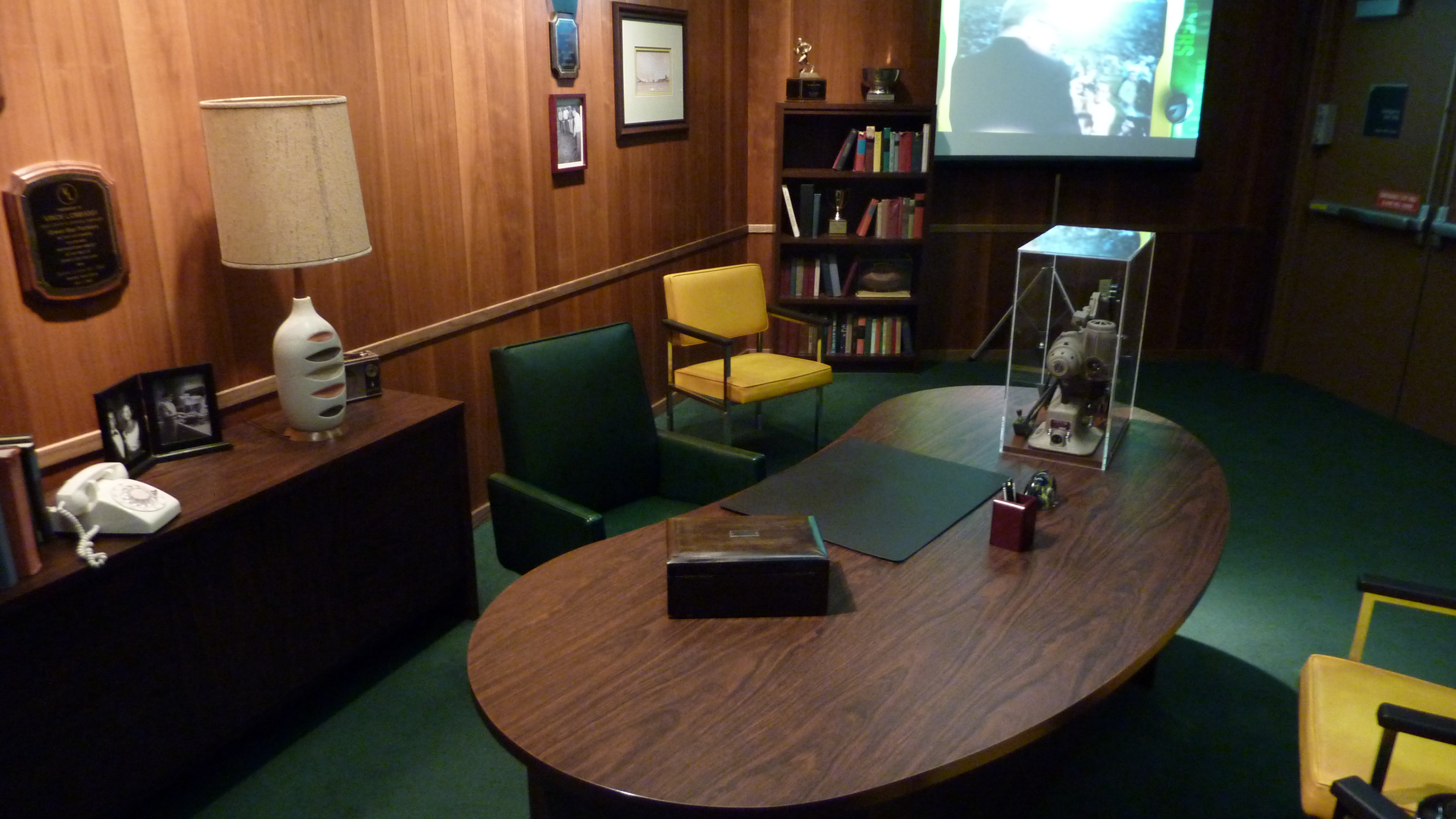 Replica of Vince Lombardi's Office located in the Green Bay Packers Hall of Fame.